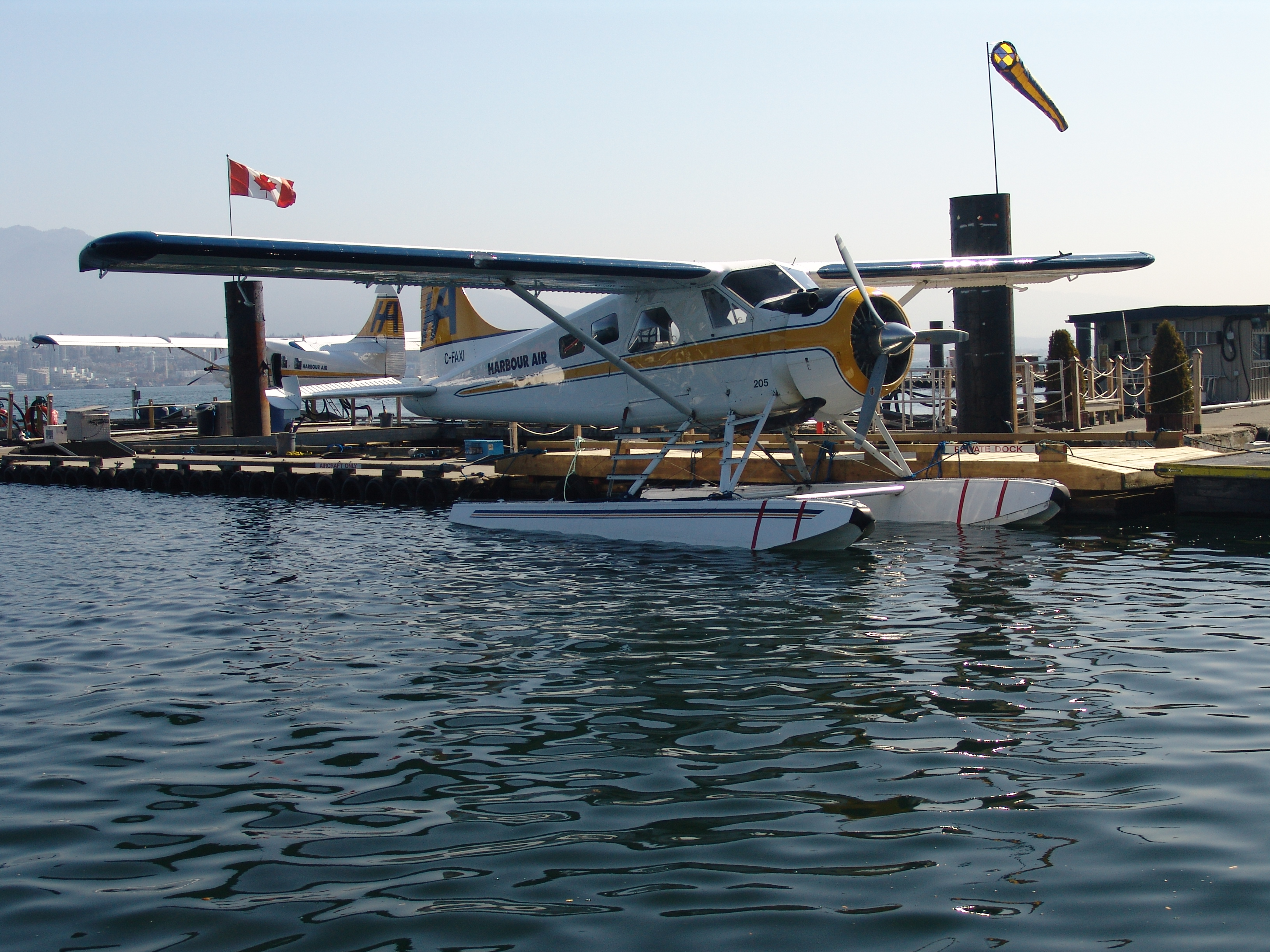 Harbour Air DHC-2 Beaver in Vancouver harbour